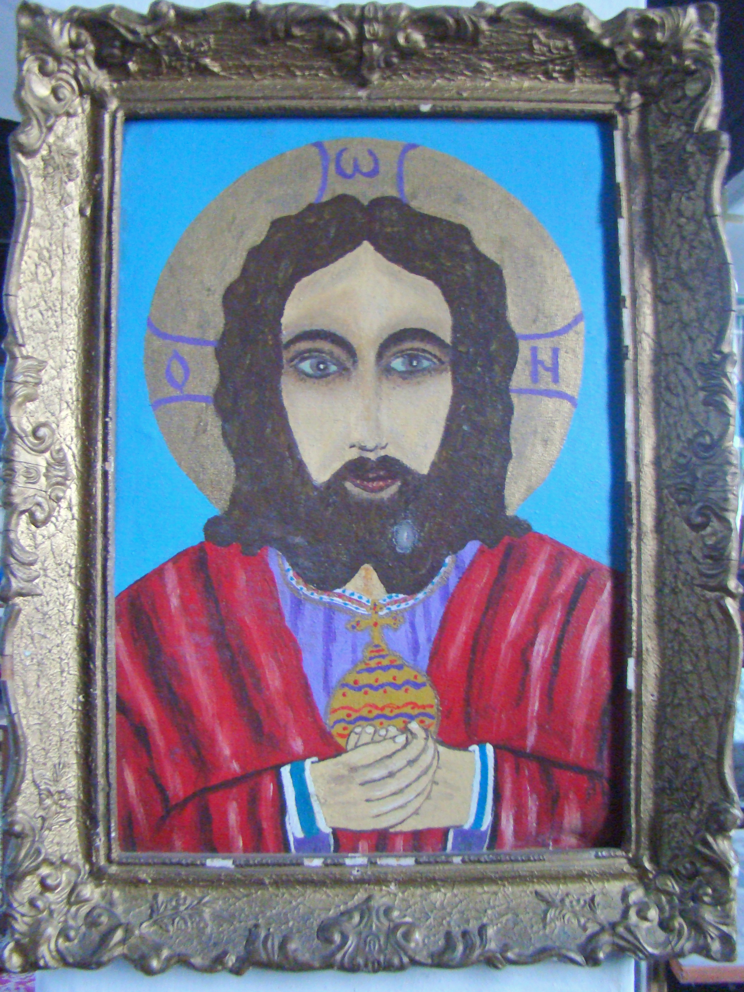 Archangels' church in Inand, Bihor county, Romania